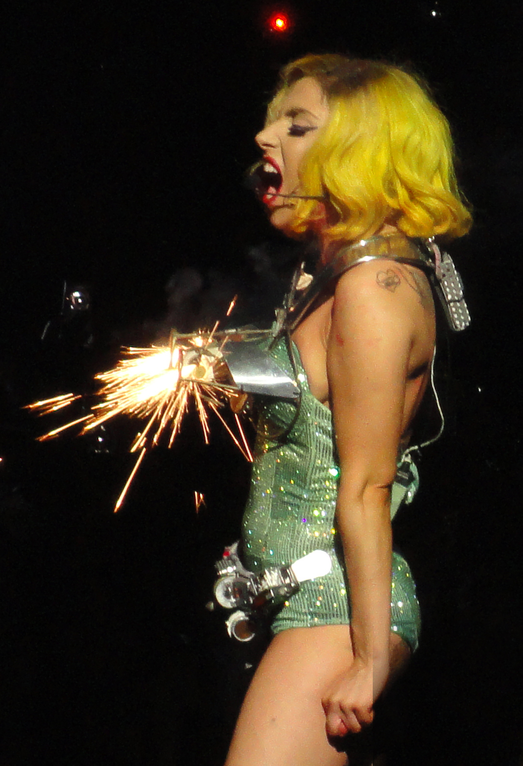 Lady Gaga performing at a concert in Madison Square Garden, New York City in July 2010.